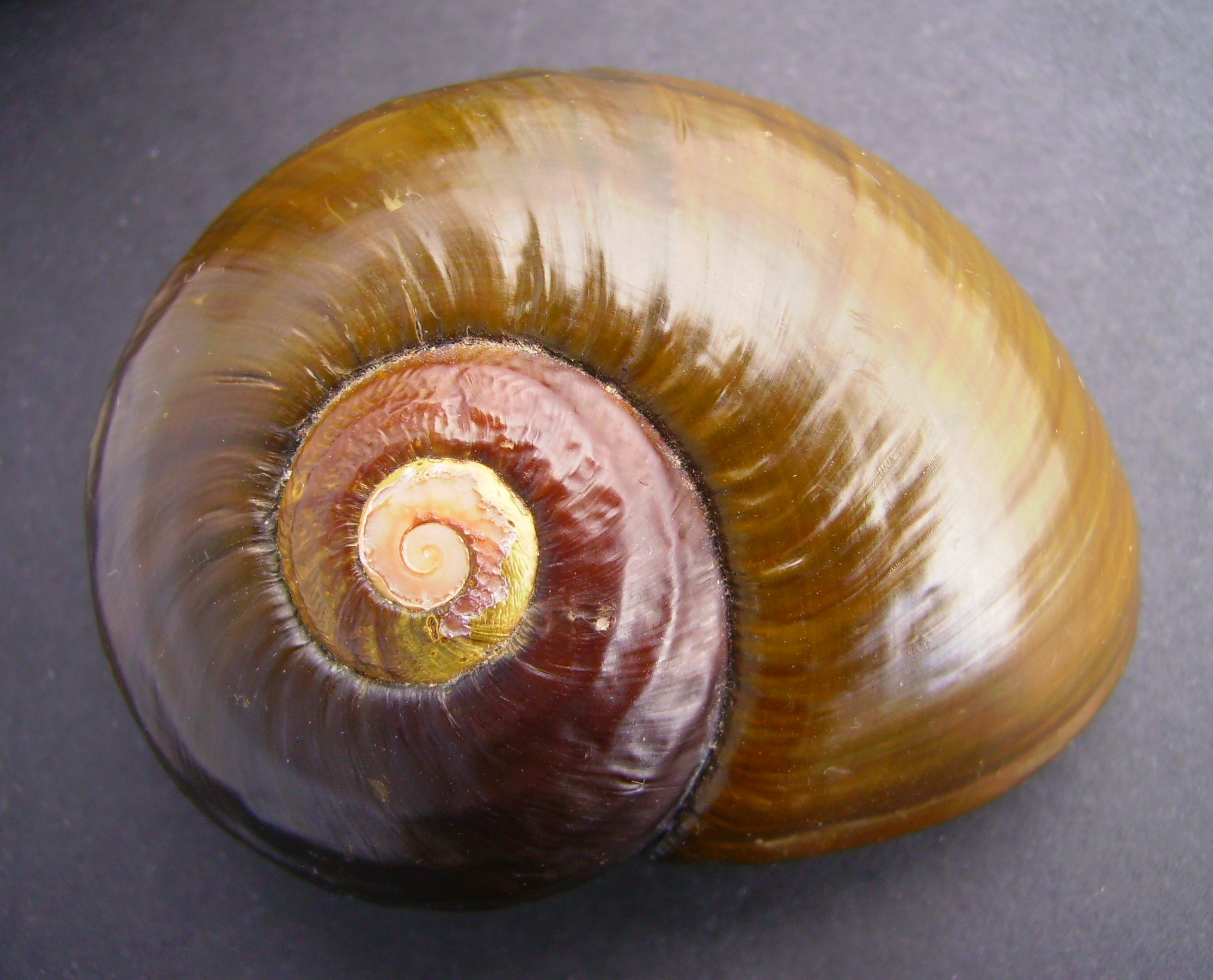 Paryphanta busbyi from Kaeo, Northland, New Zealand. This work has been released into the public domain by its author, Graham Bould. This applies worldwide. In some countries this may not be legally possible; if so: Graham Bould grants anyone the right to use this work for any purpose, without any conditions, unless such conditions are required by law.